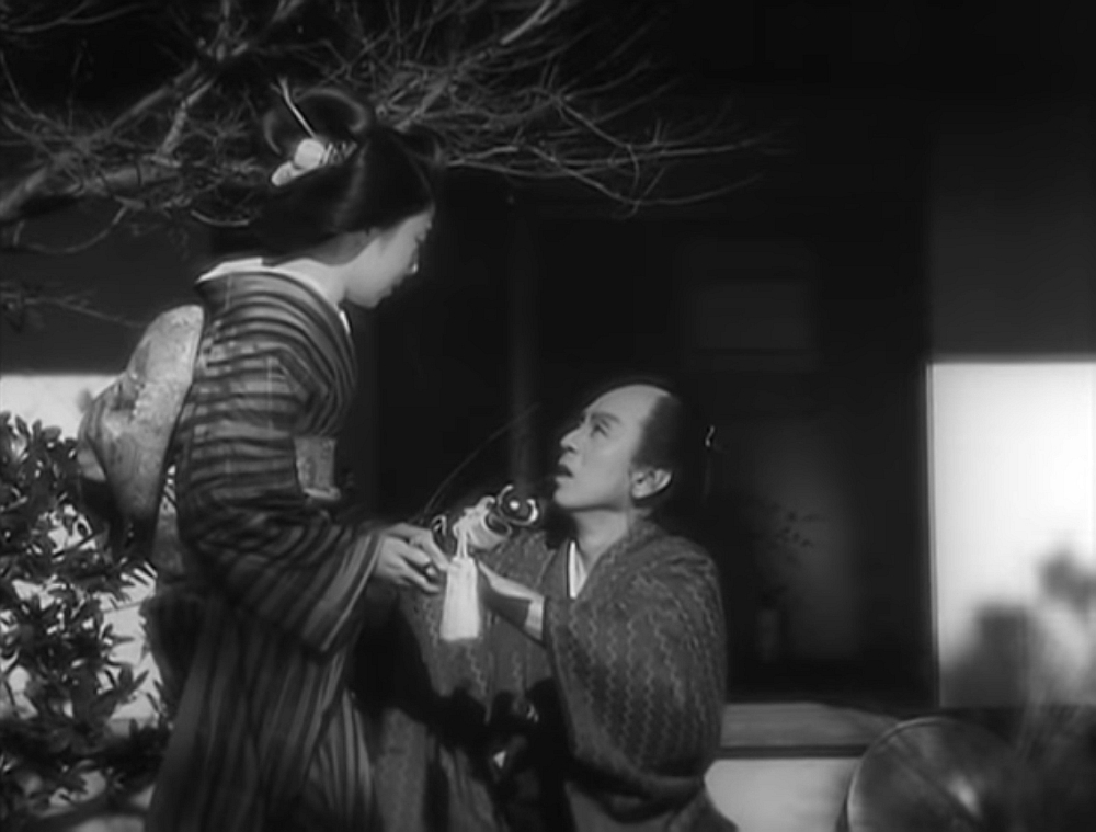 Isuzu Yamada and Shōtarō Hanayagi in Meito Bijomaru (名刀美女丸) directed by Kenji Mizoguchi - 1945